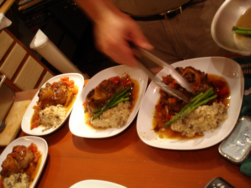 Anthony took this!